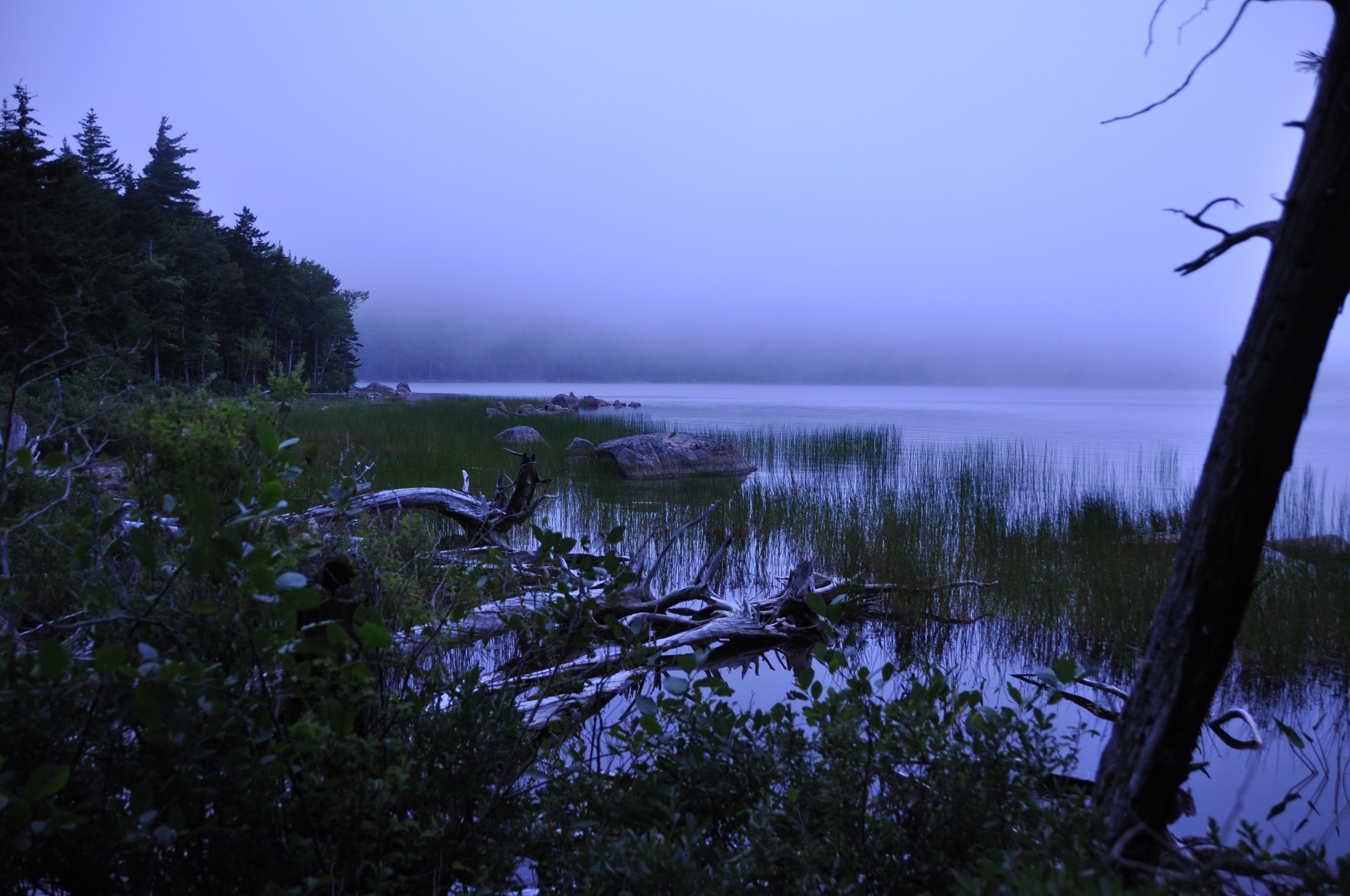 Eagle lake at Acadia National Park, Maine, USA